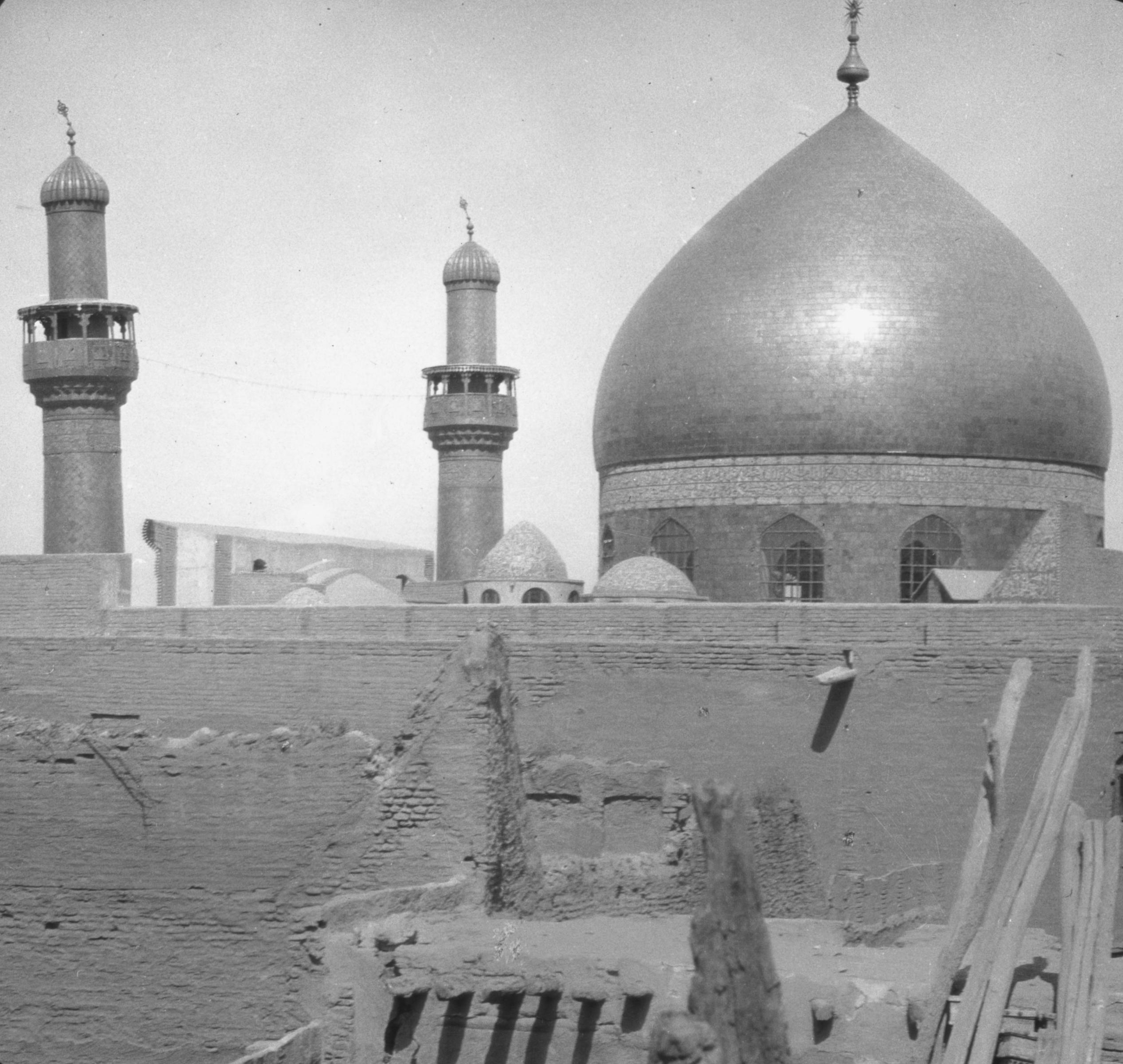 The Great Mosque of Najaf Iraq (Imama Ali shrine - for Persians and south Asians also known as Hazrat Ali by